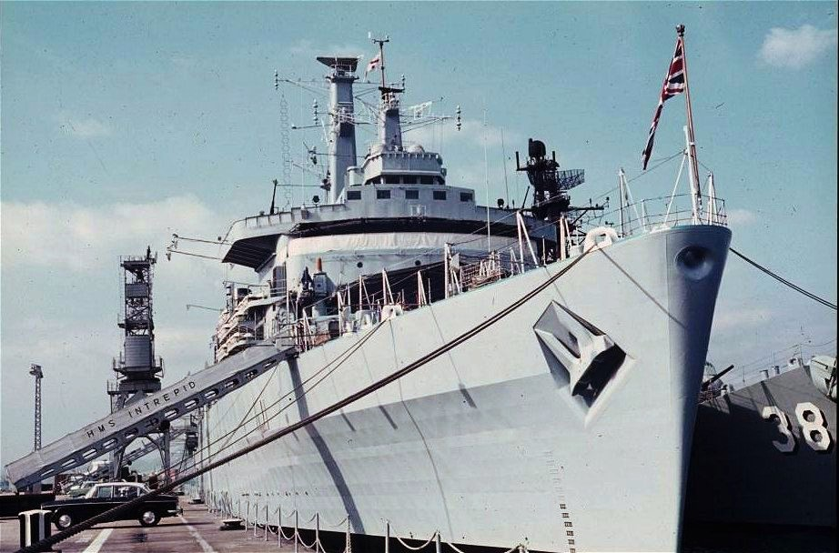 Picture of HMS Intrepid (L11) taken in Hong Kong in 1968. HMAS Perth (D38) in background.